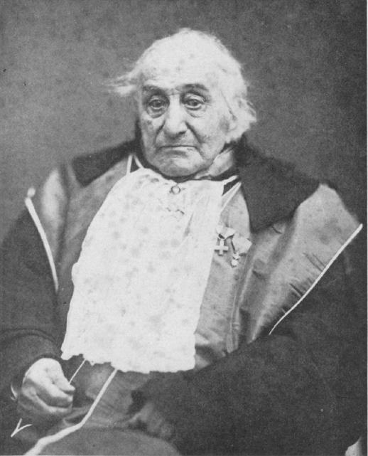 Antonio Bertoloni, the photograph was taken in Bologna in Florence, Italy.